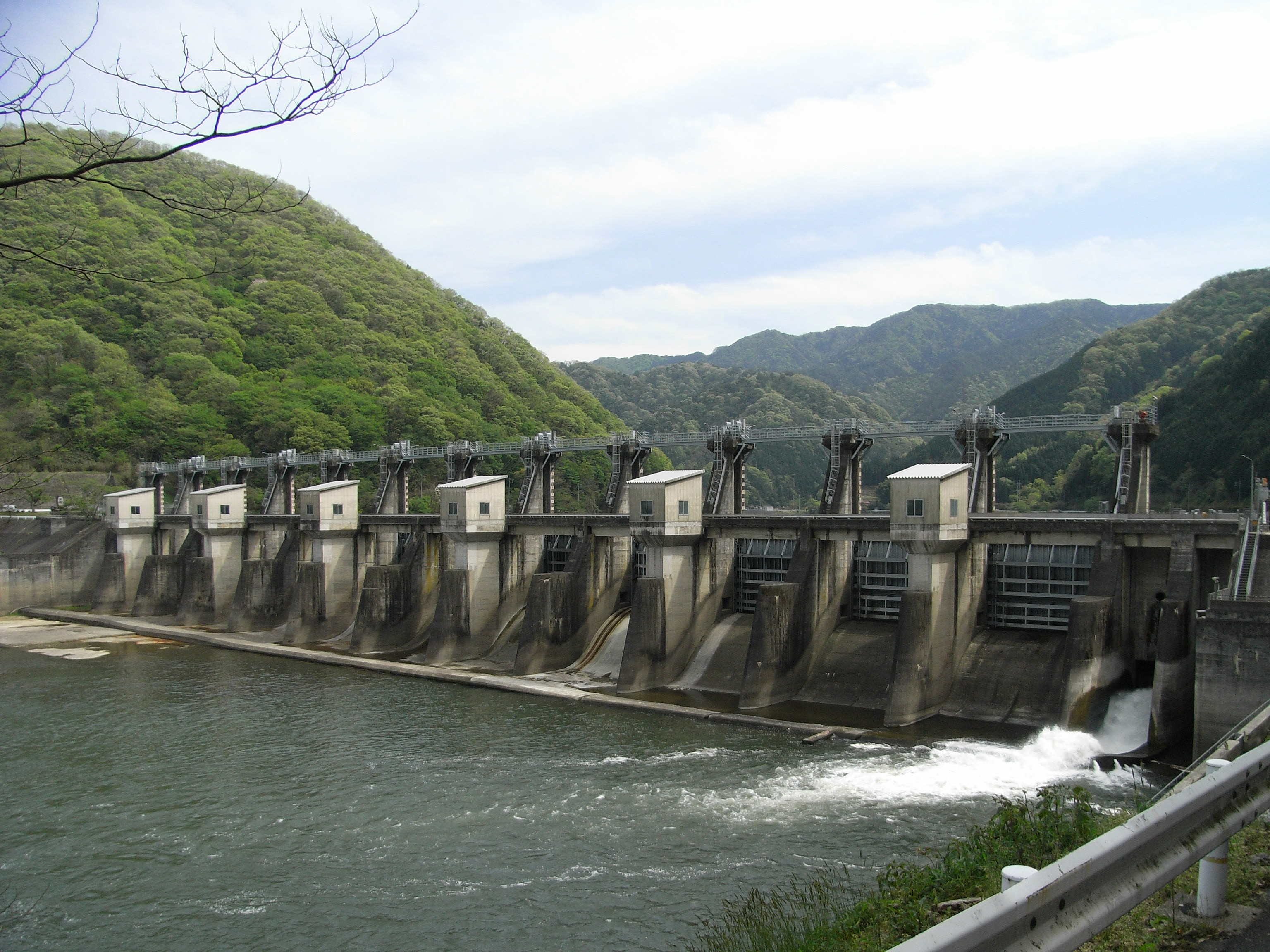 Hamahara Dam(Gonogawa river/Shimane Pref./Japan)